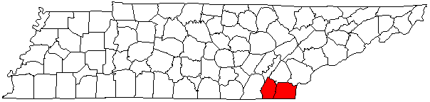 Map of Tennessee highlighting the Cleveland Metropolitan Statistical Area; created with the GIMP. Made by User:Acntx.